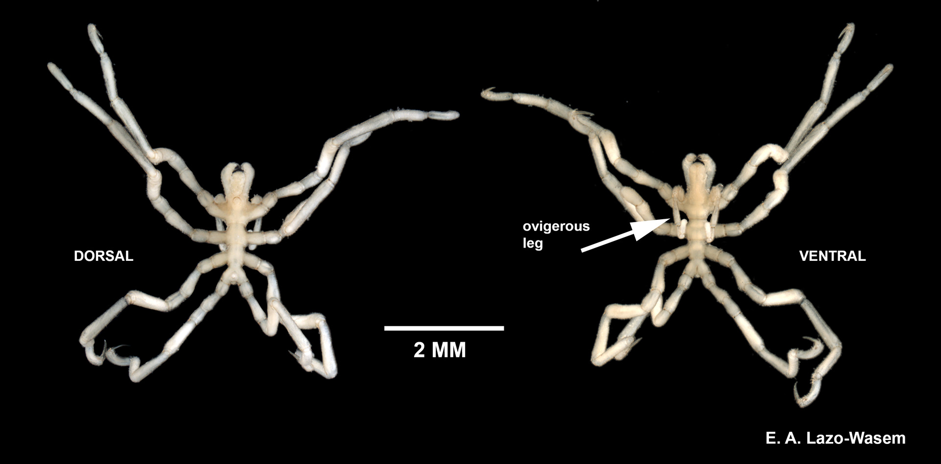 PRESERVED_SPECIMEN; ; ; 70% alc.; microslide; Det. by: C. A. Child; GM Image; Gray Museum; IZ number 77274; lot count 1; Microslide 01, balsam, whole mount; original catalog number GM 6232; 1969-07-21T00:00:00Z